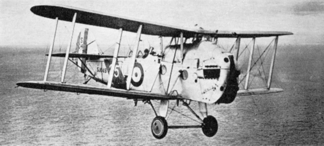 A Blackburn Blackburn II (serial number S 1049) carrier based reconnaissance aircraft of the British Fleet Air Arm